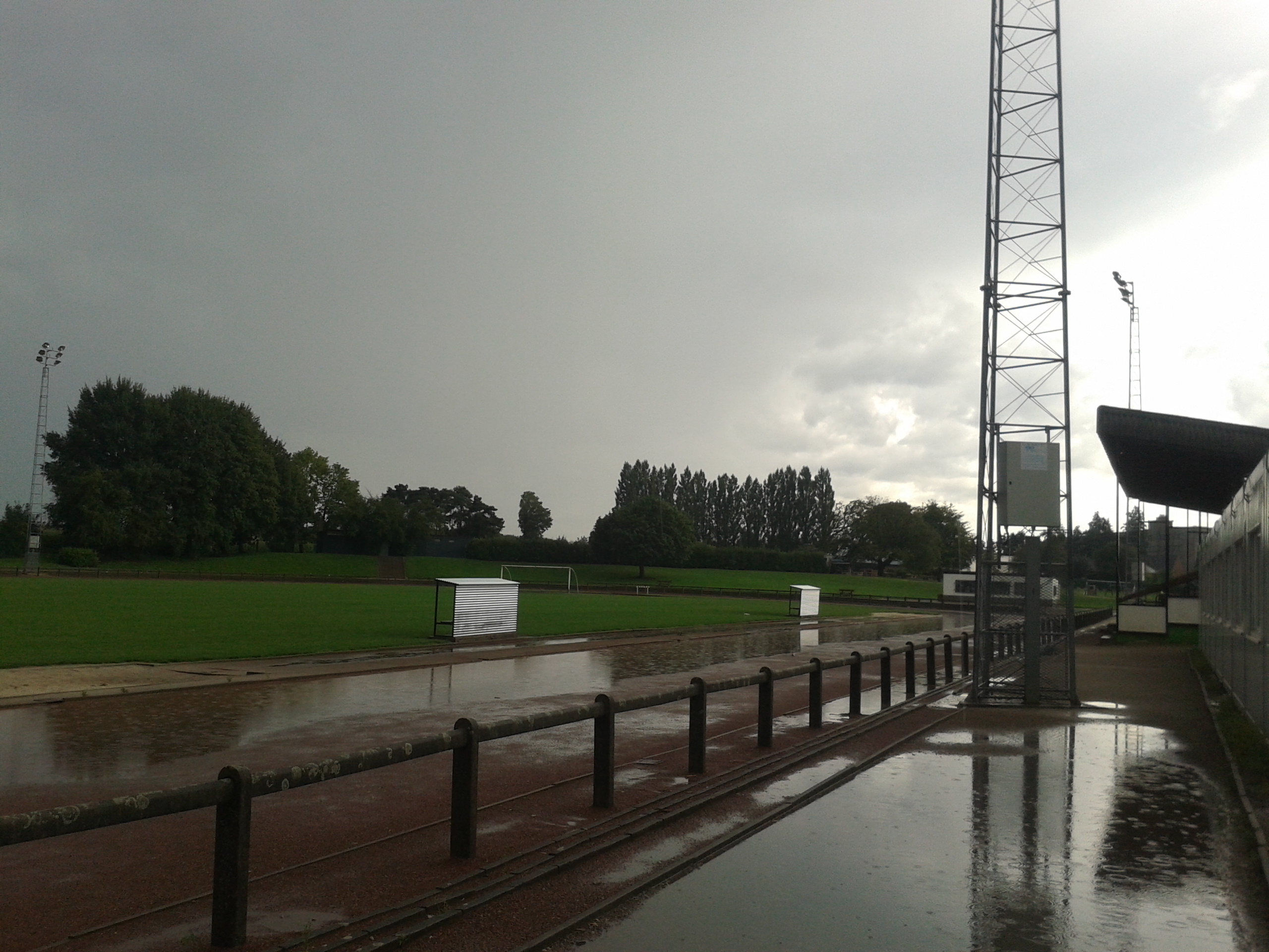 Sport venue in Fleurus, Belgium